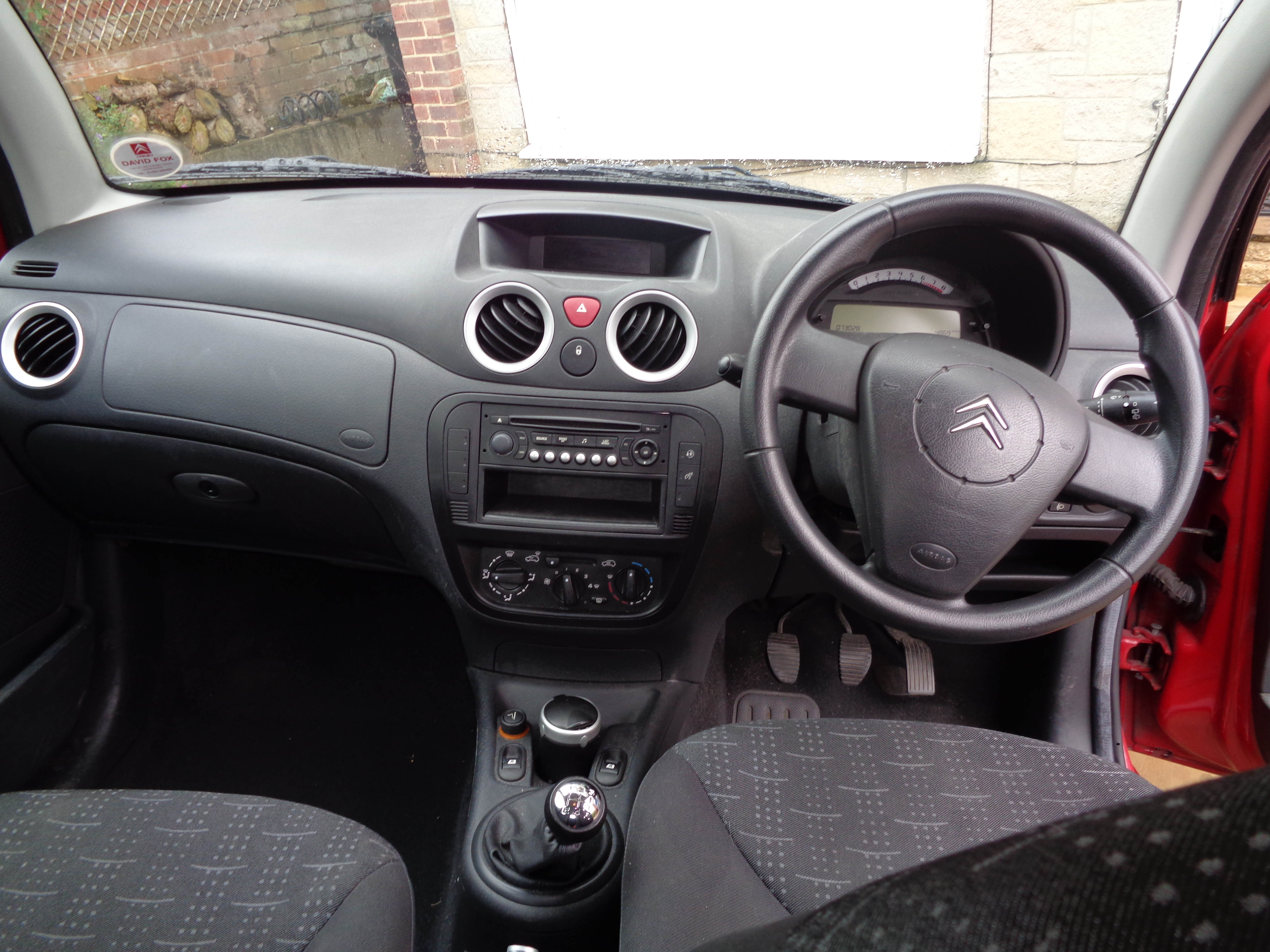 Interior of a 2005 Citroën C3. Taken on the afternoon of Wednesday the 8h July 2015.